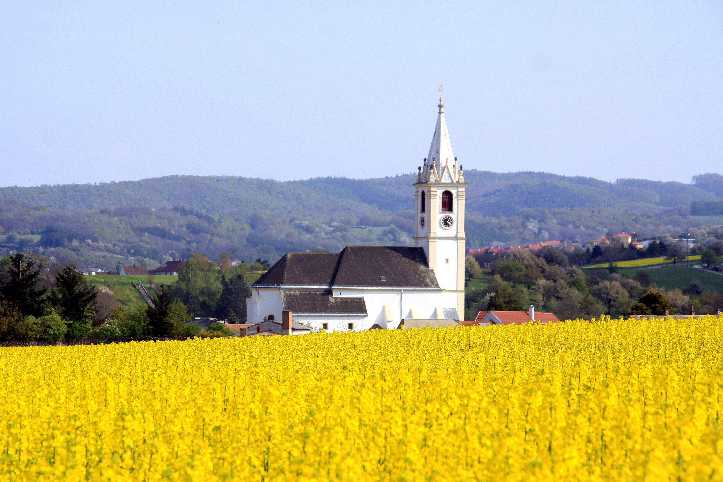 Parish church „Mariae Krönung“ - Marz Object location47° 43′ 06.97″ N, 16° 24′ 58.87″ E